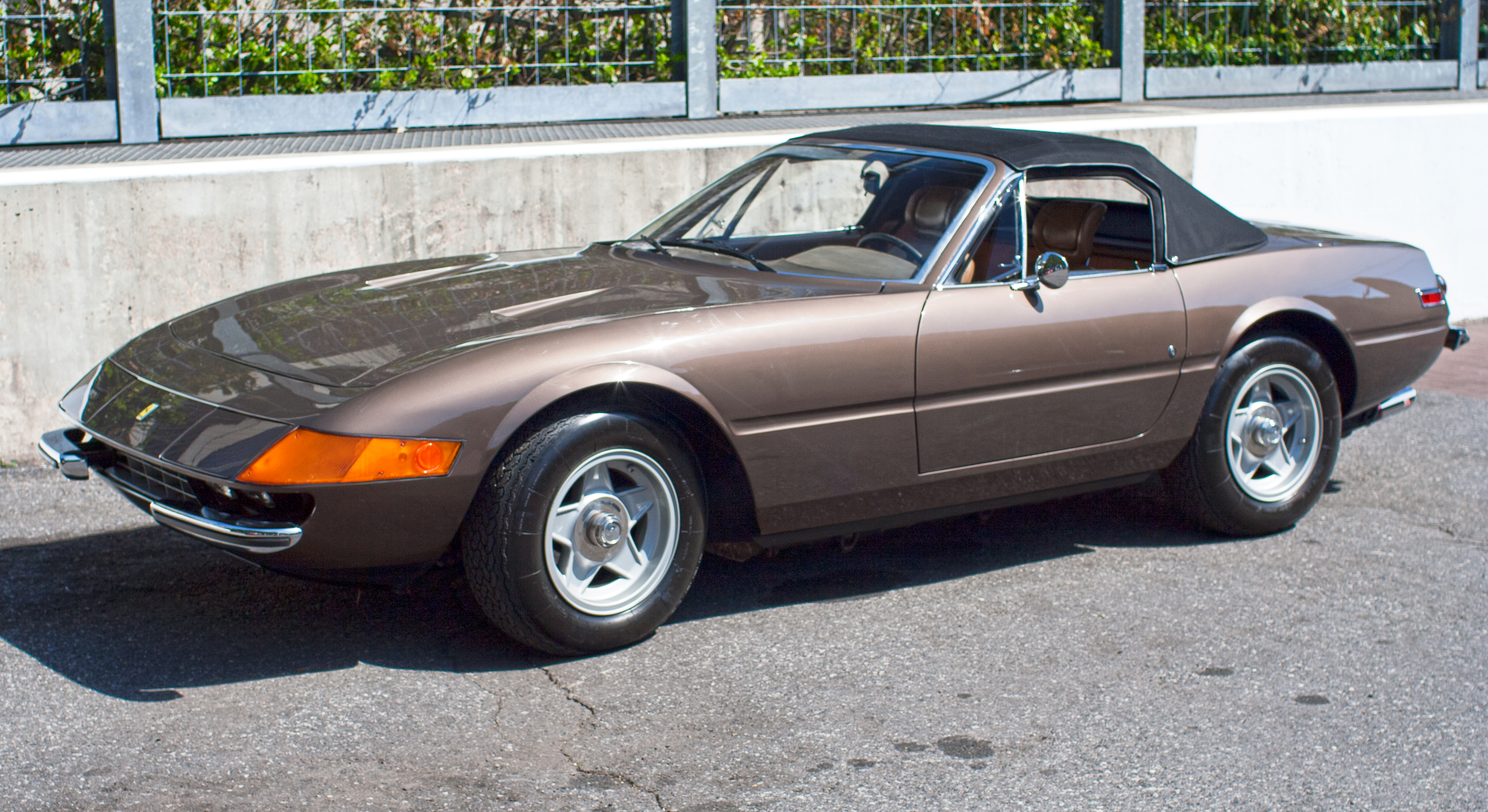 Front view of 1973 Ferrari 365 GTS/4 Daytona Spyder. This is the 105th of 121 LHD cars and a genuine Spyder. More info here. It had 2,810 miles when for sale in 2002, this had only crept up to 3,229 when sold in April 2013. Lame!!!